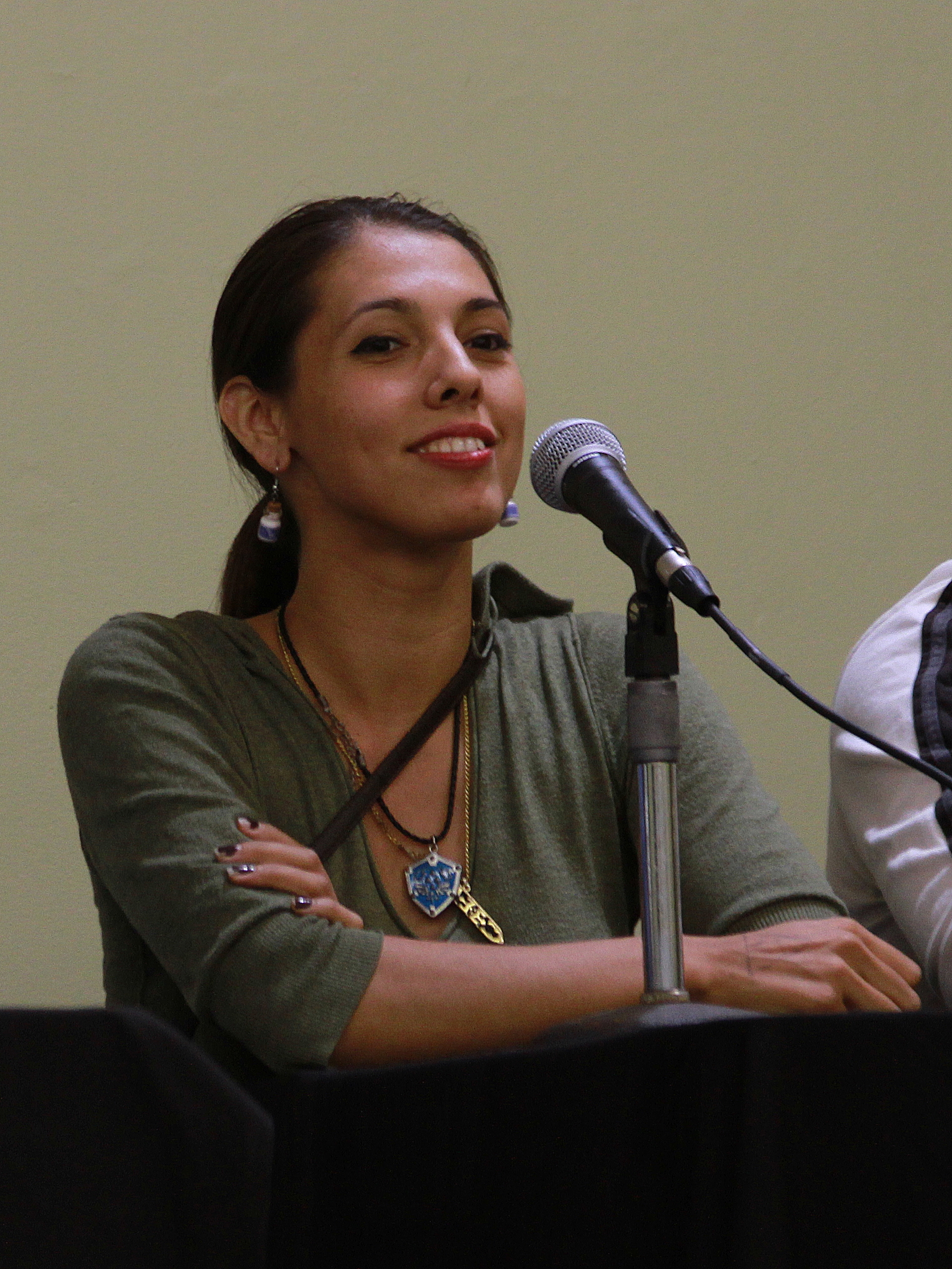 Rene Michelle Aranda was a celebrity guest and panel speaker at the Bakersfield Comic-Con, November 2018